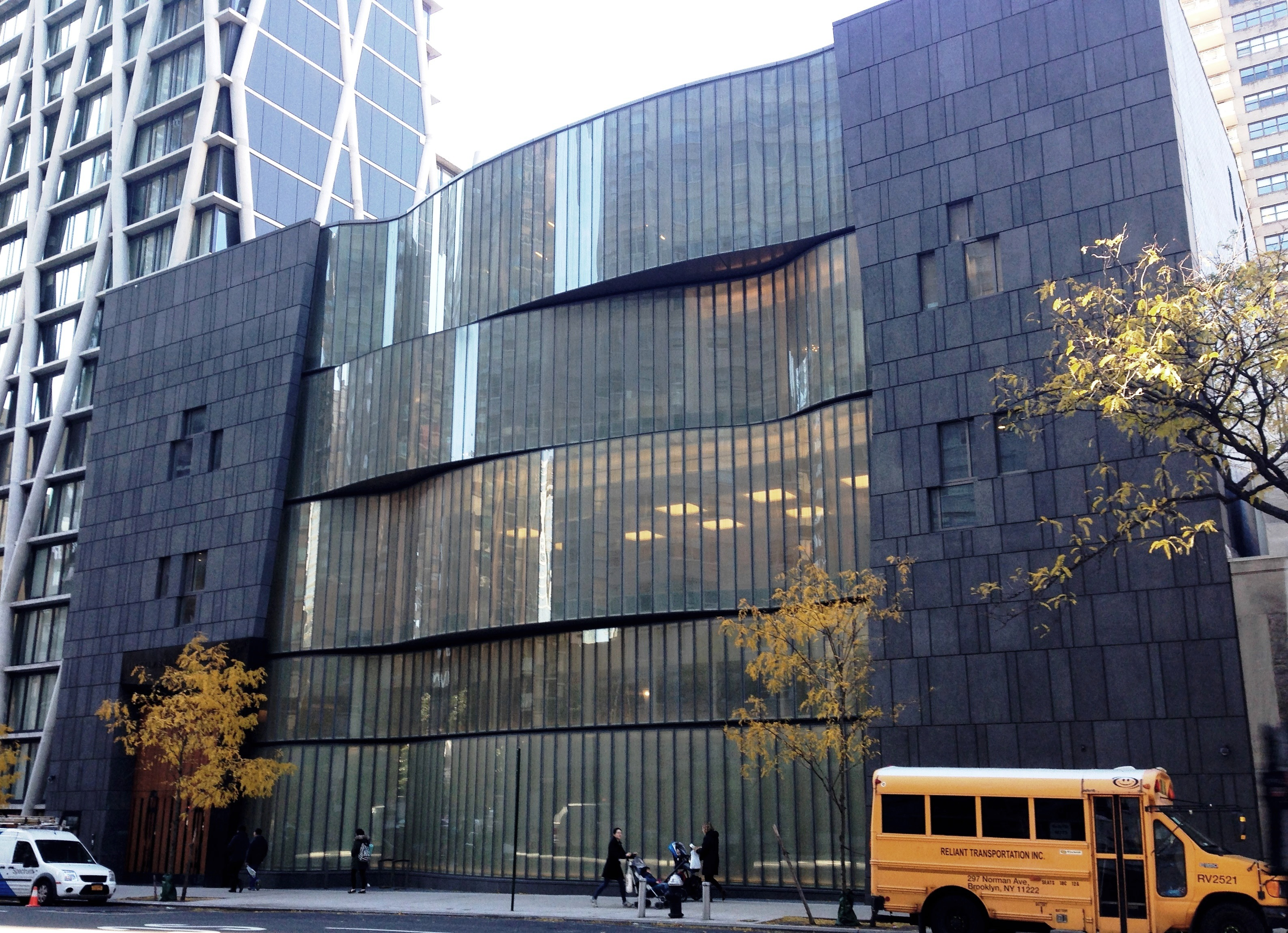 The new building of Lincoln Square Synagogue, an Orthodox congregation at 180 Amsterdam Avenue betwen West 68th and 69th Streets in the Lincoln Square neighborhood of Manhattan, New York City, was designed by Cetra/Ruddy and completed in 2013.